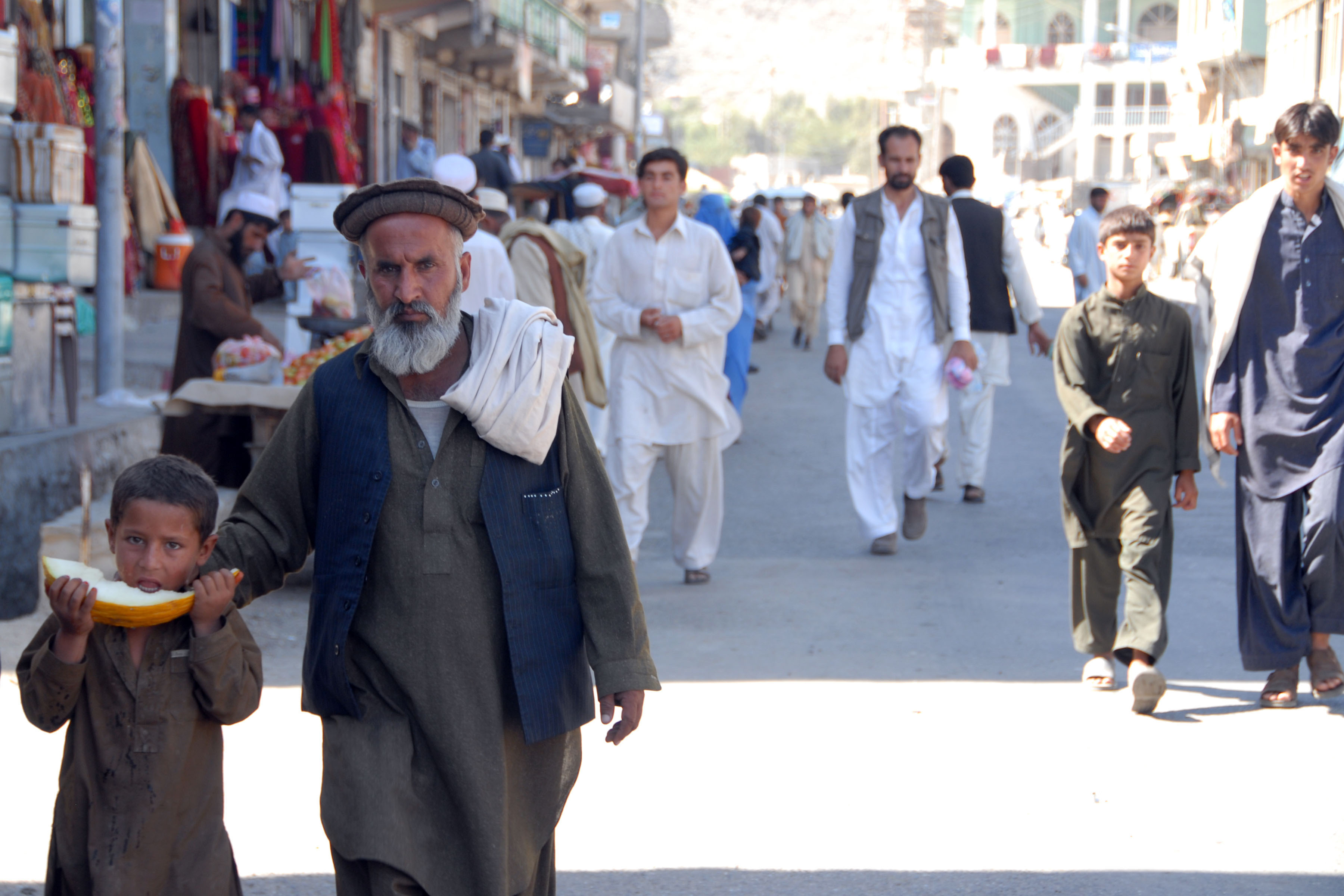 An Afghan father and his child walk down the street from the local farmers market in Asadabad, Afghanistan, Sept. 30, 2009. Provincial Reconstruction Team-Kunar security forces from Camp Wright in Asadabad performed a presence patrol by walking the street talking to local vendors. (Photo ID: 207813)